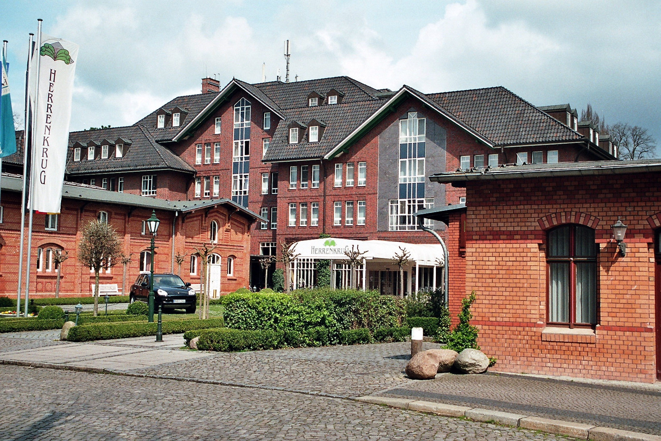 Magdeburg, Parkhotel Herrenkrug